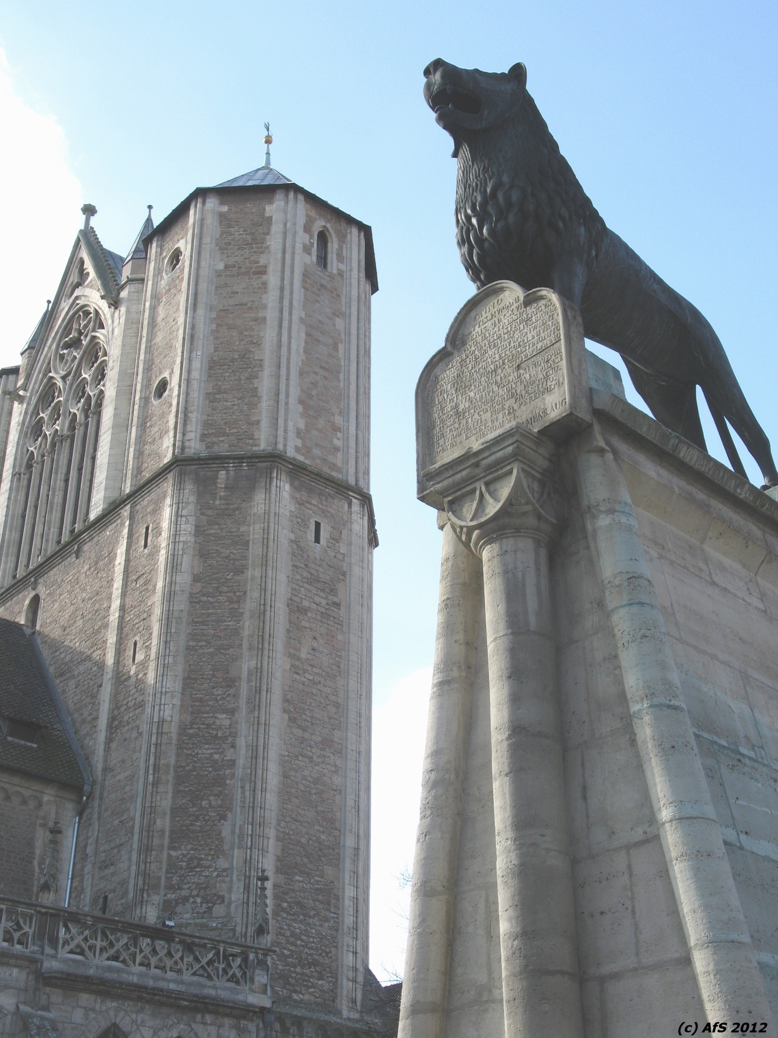 Cathedral of Braunschweig, built in 12th century